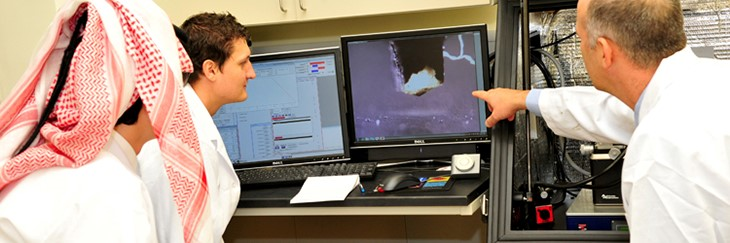 CAM Facilities